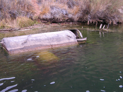 A rusted boiler among a few timbers is all that remains of the Charles H. Spencer, a steamboat on the Colorado River, at Lee's Ferry in Arizona, USA